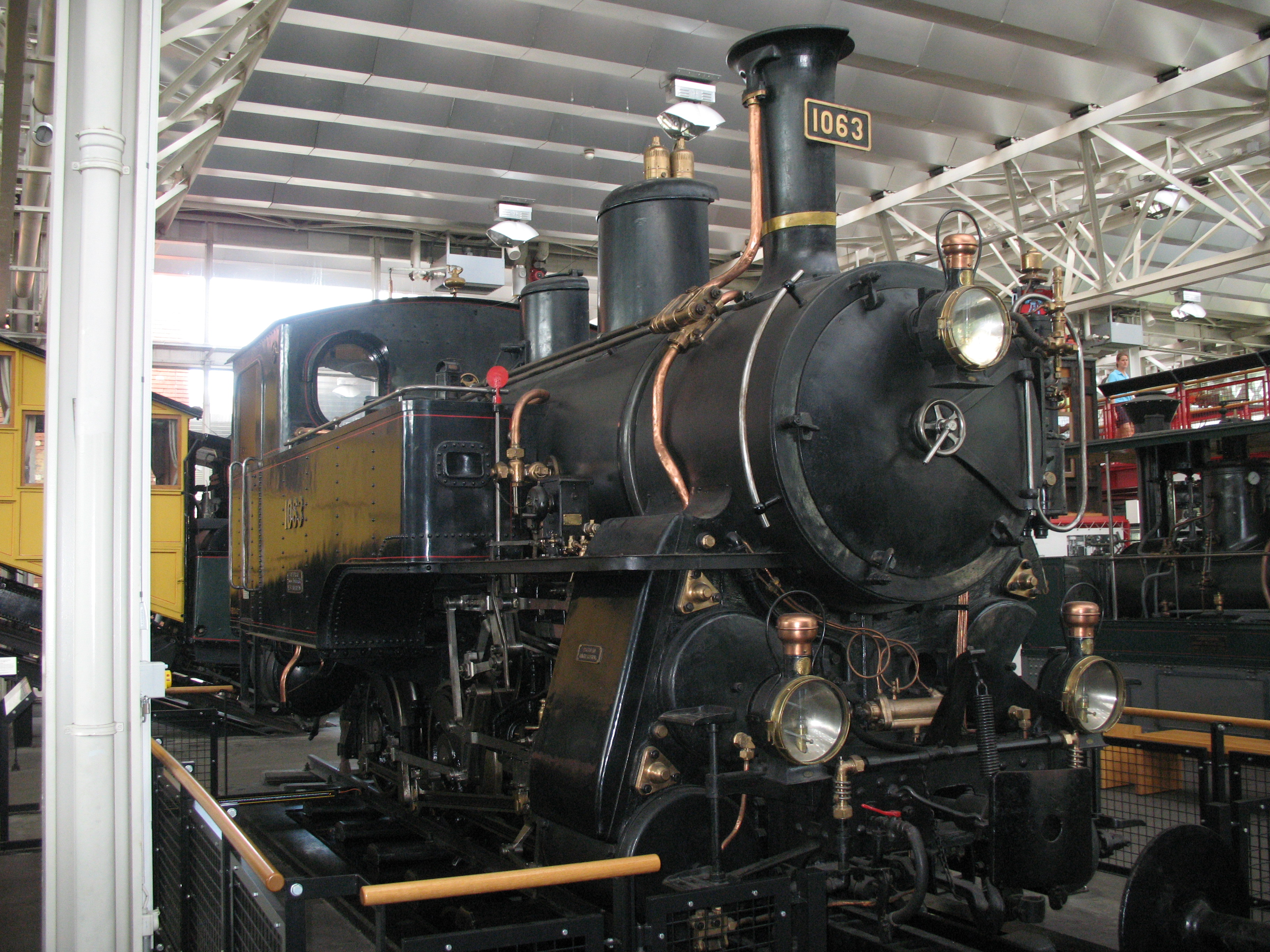 SBB-CFF-FFS HG 3/3 #1063 in the Swiss Transport Museum, Luzern, Switzerland